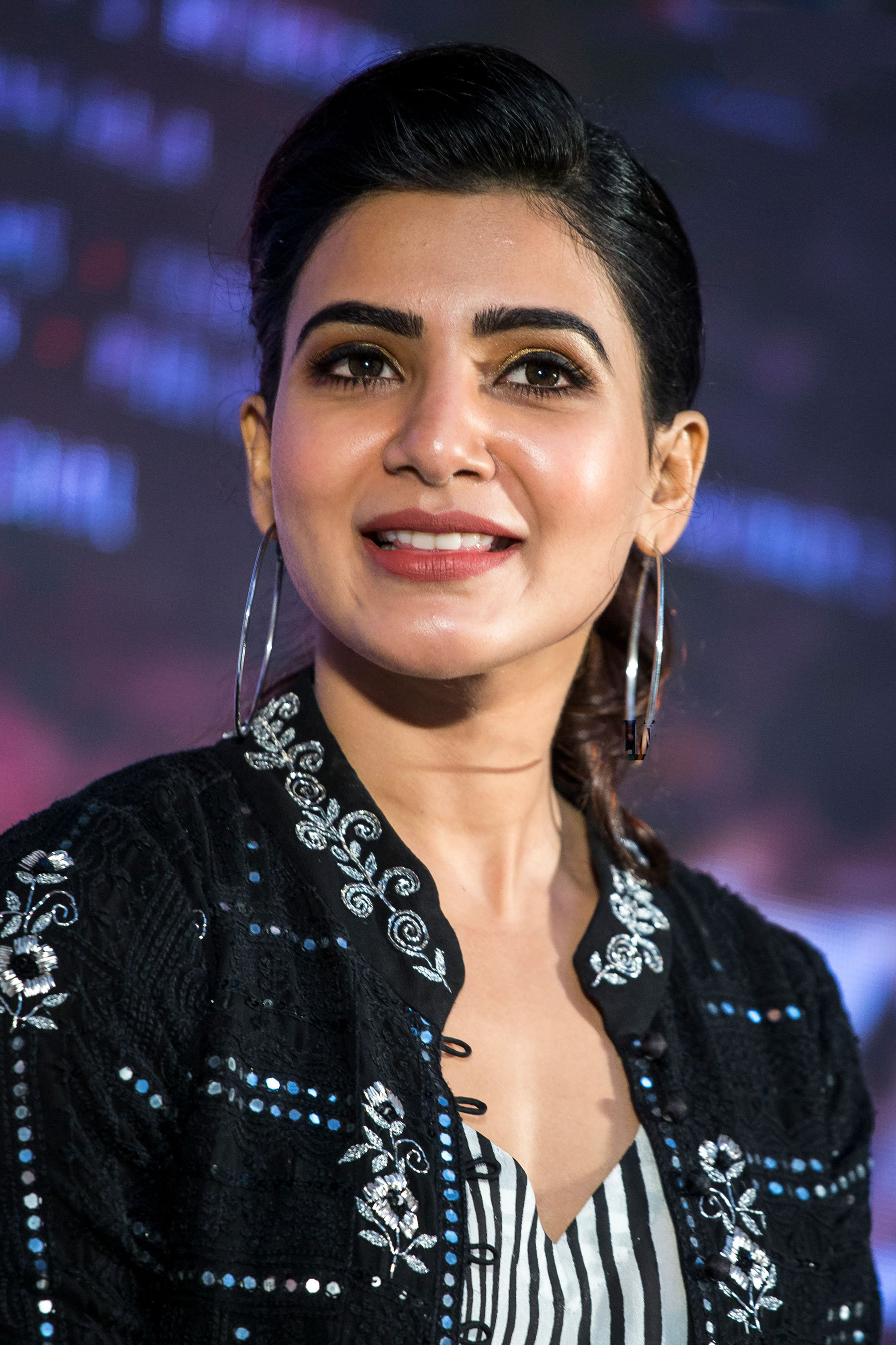 Samantha At The Irumbu Thirai Trailer Launch